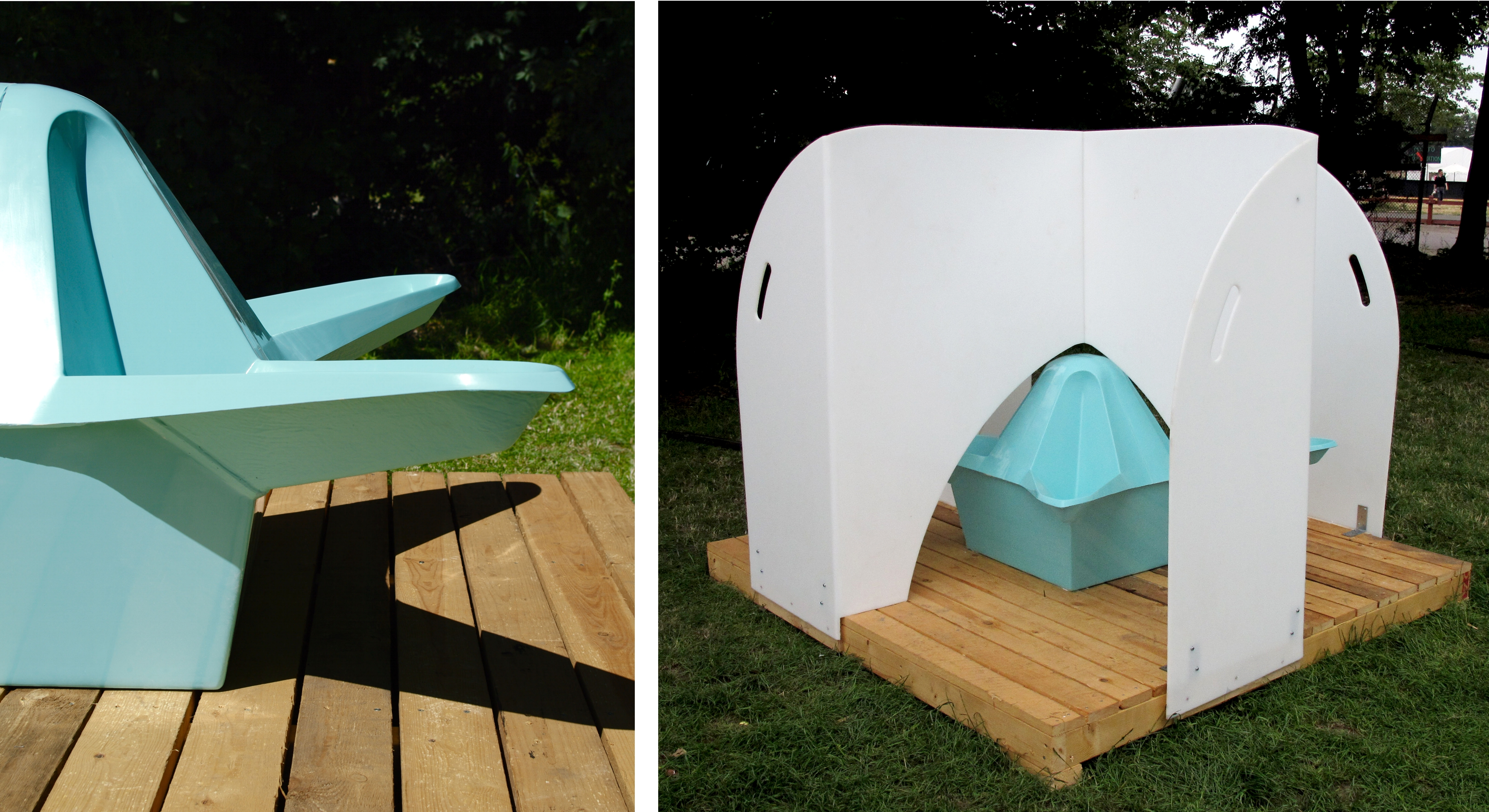 Pollee: a mobile female urinal